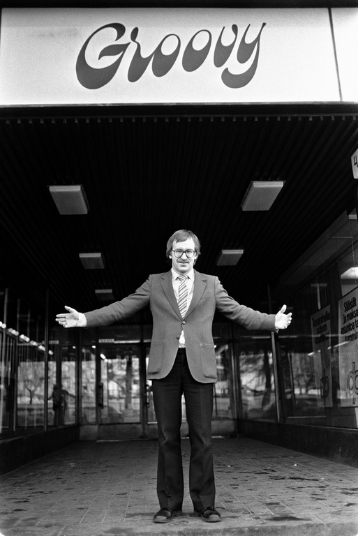 Jazz club Groovy's manager Juha Lehto outside the restaurant, Helsinki, February 1978.